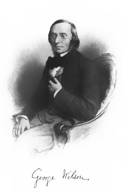 Portrait of George Wilson (1818–1859), Scottish chemist, from Memoir of George Wilson by Jessie Aitken Wilson.